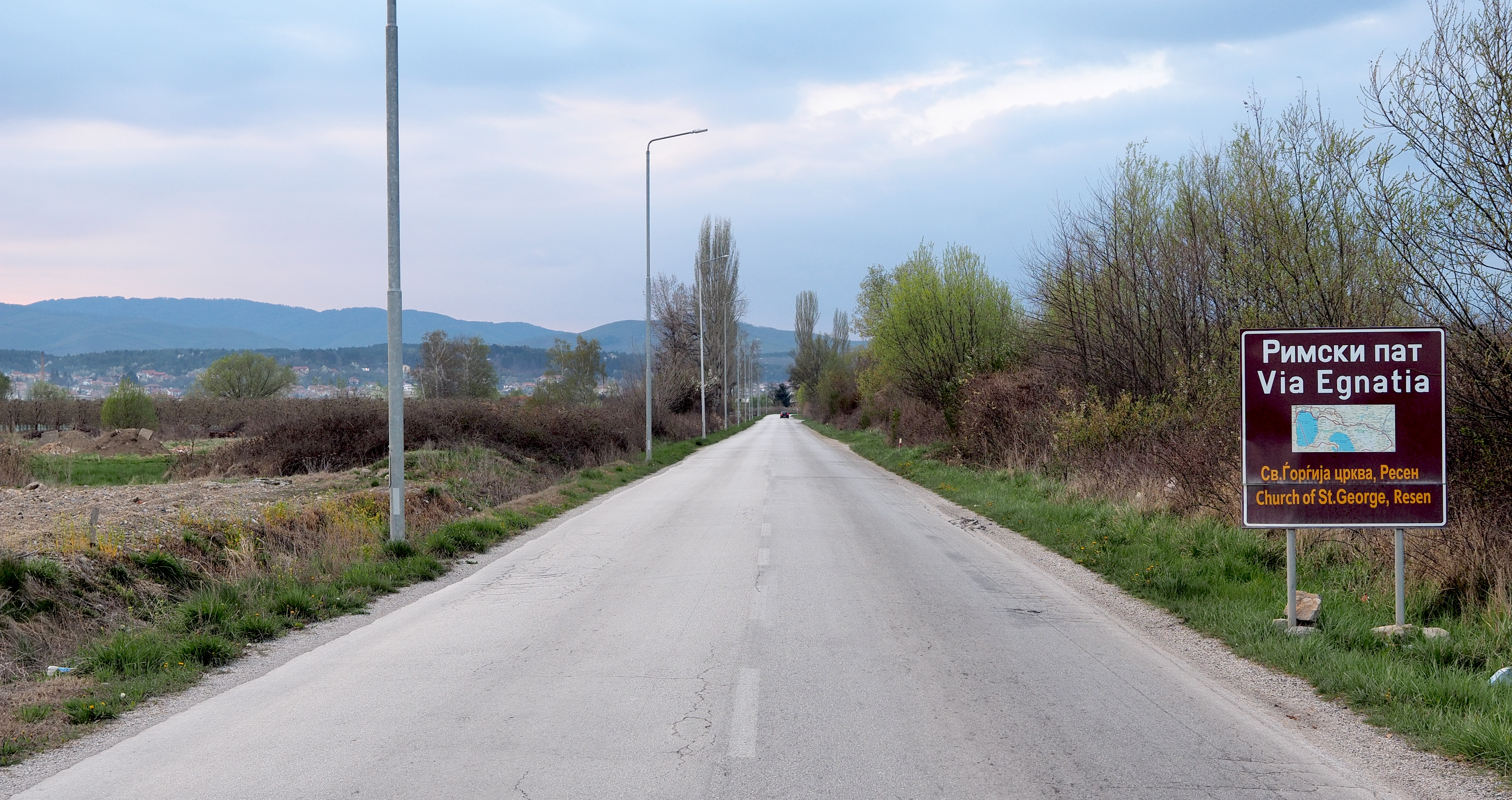 Via Egnatia, road constructed by the Romans in the 2nd century BC. Српски (ћирилица): Via Egnatia (Игњатијев пут) је магистрални римски пут подигнут у II веку п. н. е Град Ресен, Македонија This photograph was taken with a Olympus E-M1.